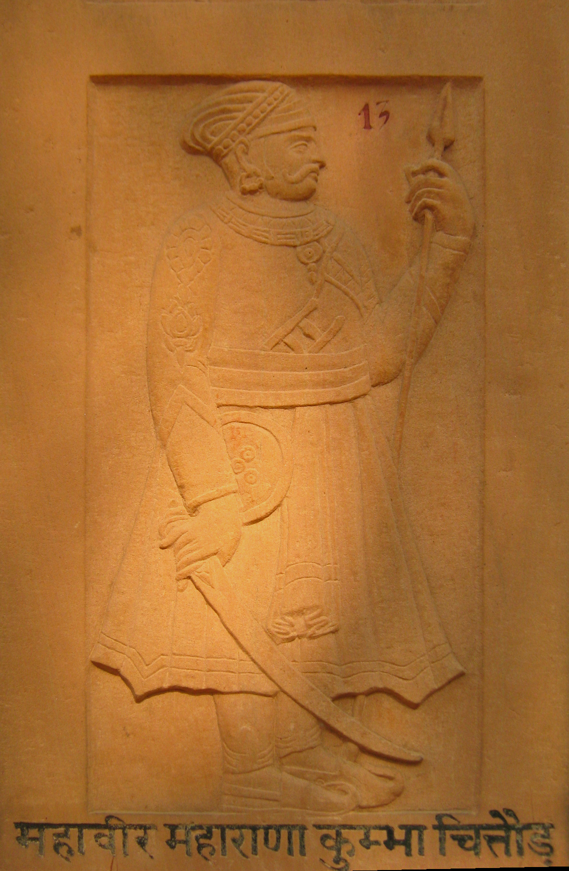 Sculpture of Rana Kumbha at Birla Temple